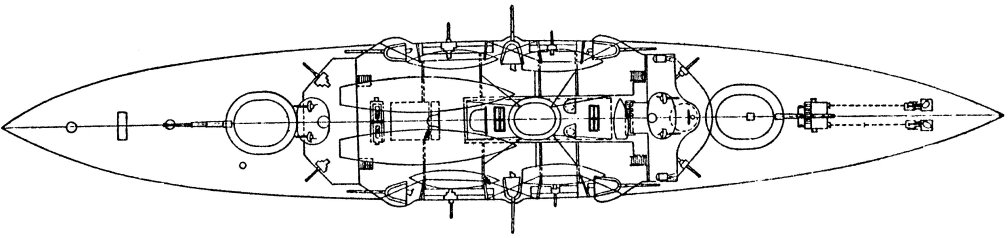 Computer traced from an old drawing found at the Norwegian Armed Forces Museum by uploader. Original from the 1905 German booklet Taschenbuch der Kriegsflotten, likely in PD.